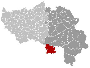 Map, municipality belgium Lierneux